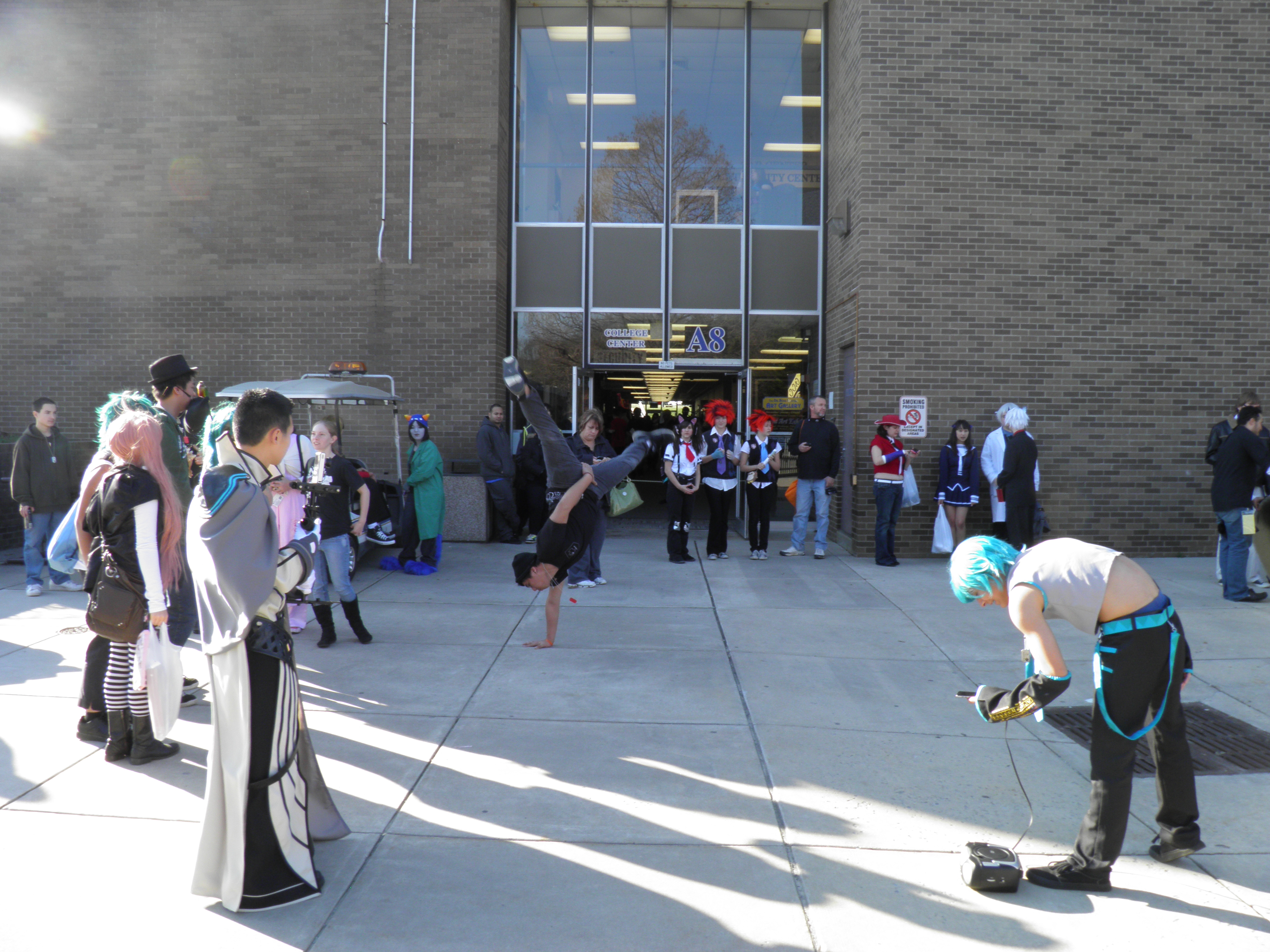 People in costume/character at KotoriCon 2012.